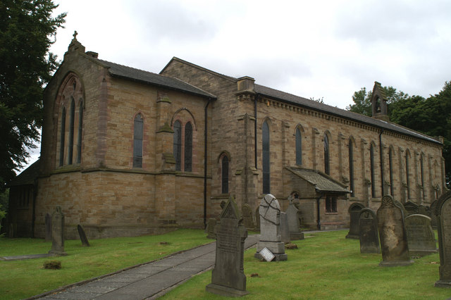 Parish Church of St David, Haigh & Aspull North-east corner.